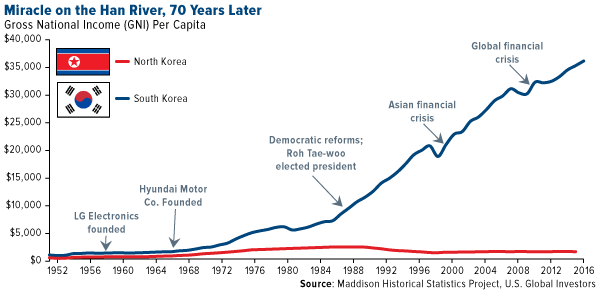 GDP history 1950~2016